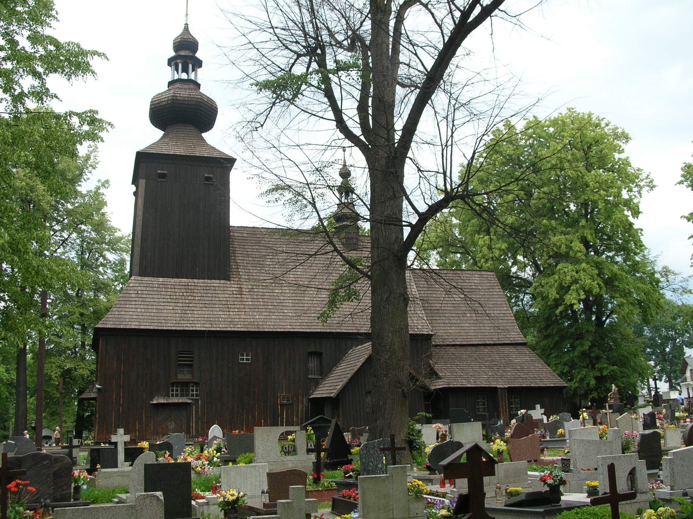 Church in Ćwiklice